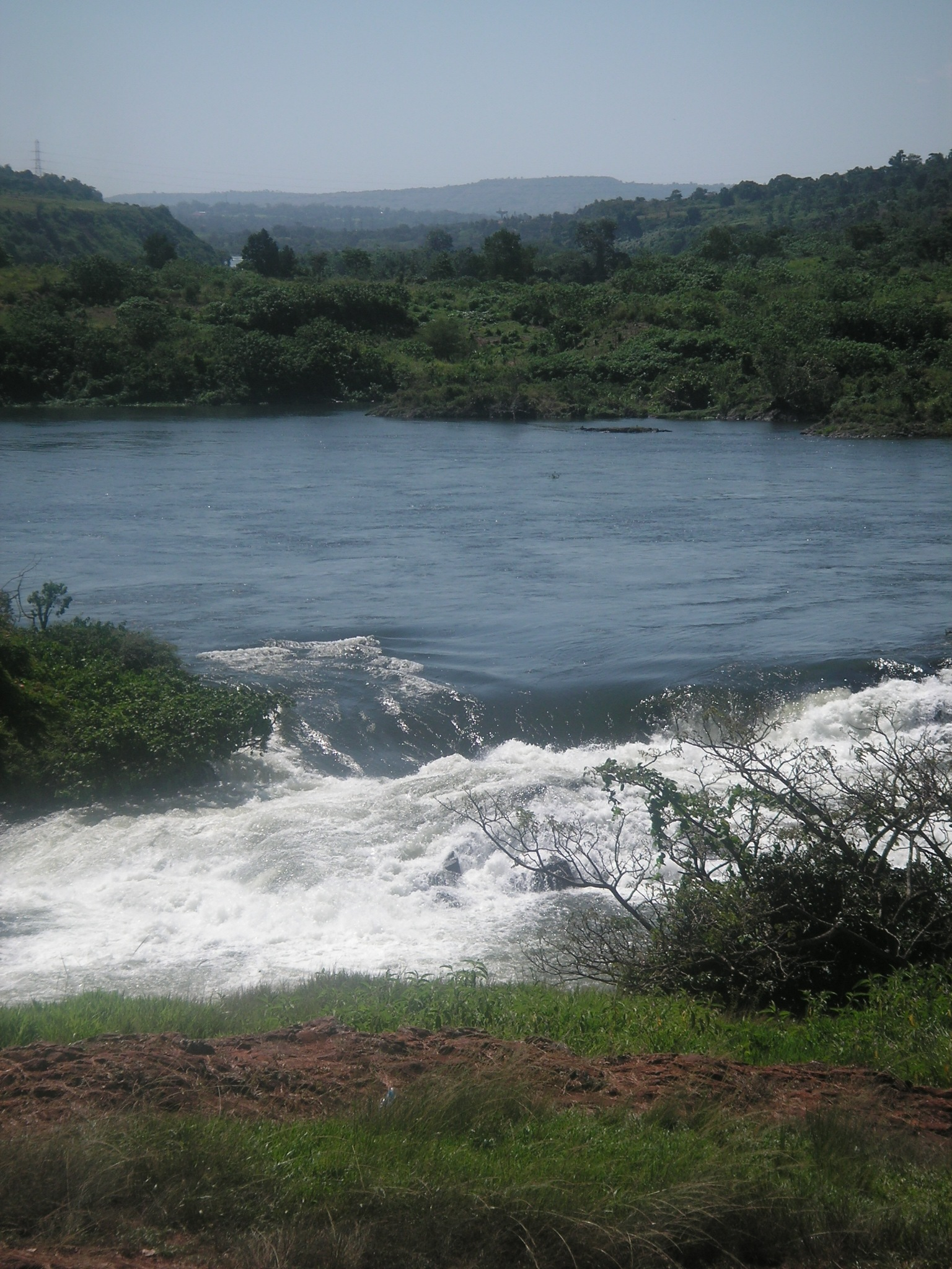 Nile near Jinja (Bujagali Falls)